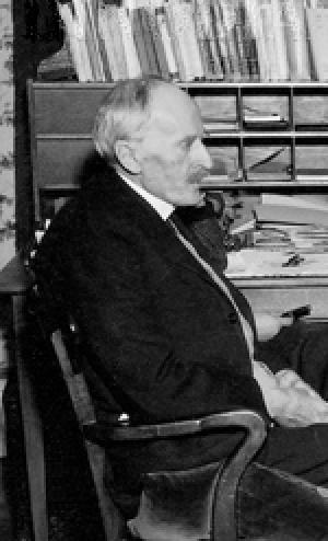 An extract from the photo: wikilivres:Image:Romain_Rolland_and_Gandhi.jpg made in the same time when another photo: File:Gandhi_Romain_Rolland_1931.jpg